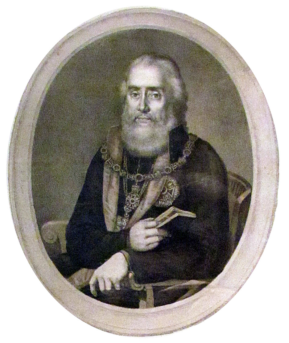 Josif Cigler, Stefan Stratimirović, 1822, coloured lithograph, National Museum of Serbia